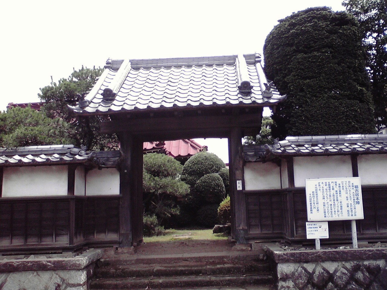 Inayoshi-juku Honjin(Kasumigaura city, Ibaraki prefecture, Japan).